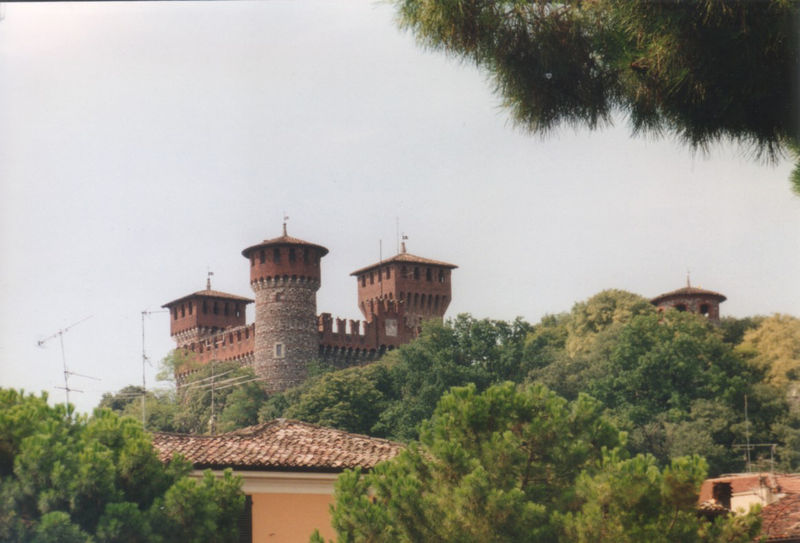 Released into the Public Domain by author, utente:Giorces in (image with same name). Autore Giorces. Castello Bonoris (divertissement architettonico del 1890 in stile neomedievale).